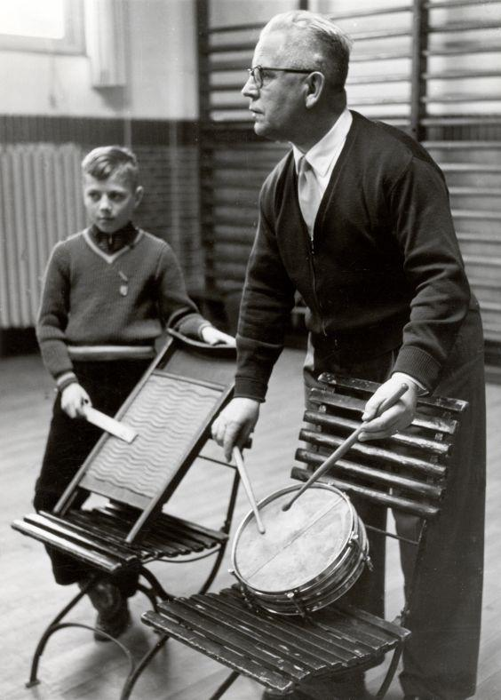 Nationaal Archief / Spaarnestad Photo / J. van Eijk, SFA003001896. Onderwijzer en leerling bij een repetitie van het schoolorkest van de Albadeschool in Den Haag, 1957. Music lesson in the primary / elementary school Albadeschool in the Hague, the Netherlands, 1957. Rehearsal for a performance of the school orchestra. Collectie Spaarnestad Voor meer informatie en voor meer foto’s uit de collectie van Spaarnestad Photo, bezoek onze Beeldbank: U kunt ons helpen onze kennis van de fotocollecties te verrijken door tags en commentaren toe te voegen. Herkent u mensen of locaties of heeft u een bijzonder verhaal te vertellen bij één van de foto’s, laat dan een reactie achter (als u ingelogd bent bij Flickr) of stuur een mailtje naar: You can help us gain more knowledge on the content of our collection by simply adding a comment with information. If you do not wish to log in, you can write an e-mail to